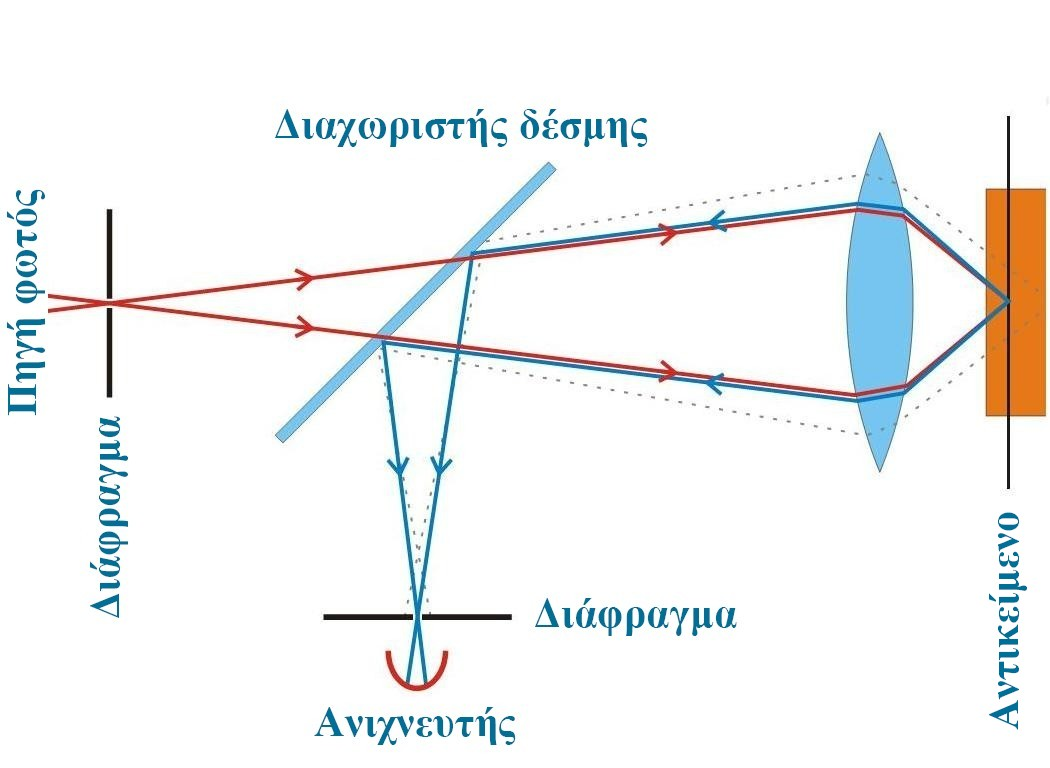 Diagram of confocal principle